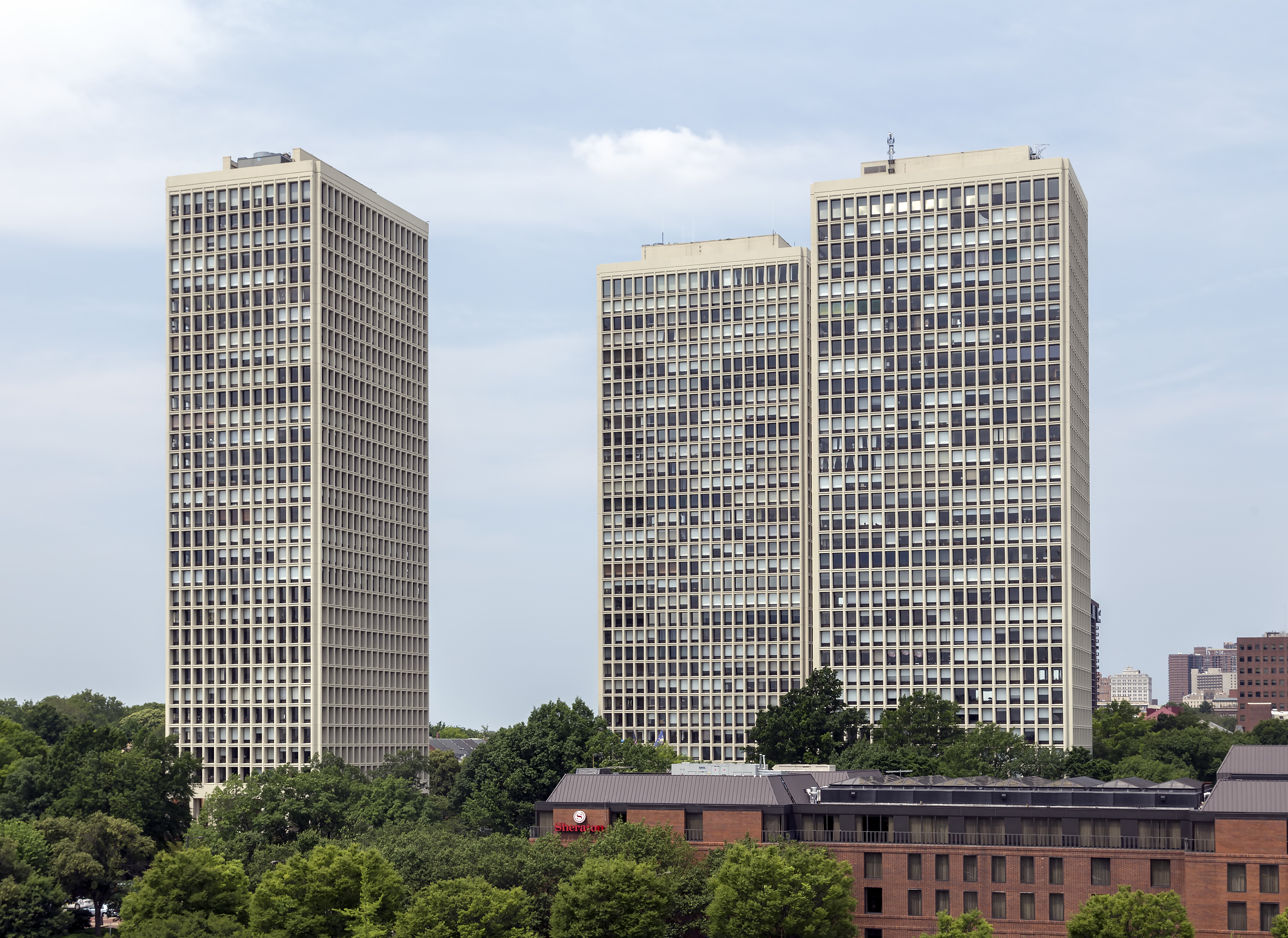 The Society Hill Towers from the east, Philadelphia, Pennsylvania, USA